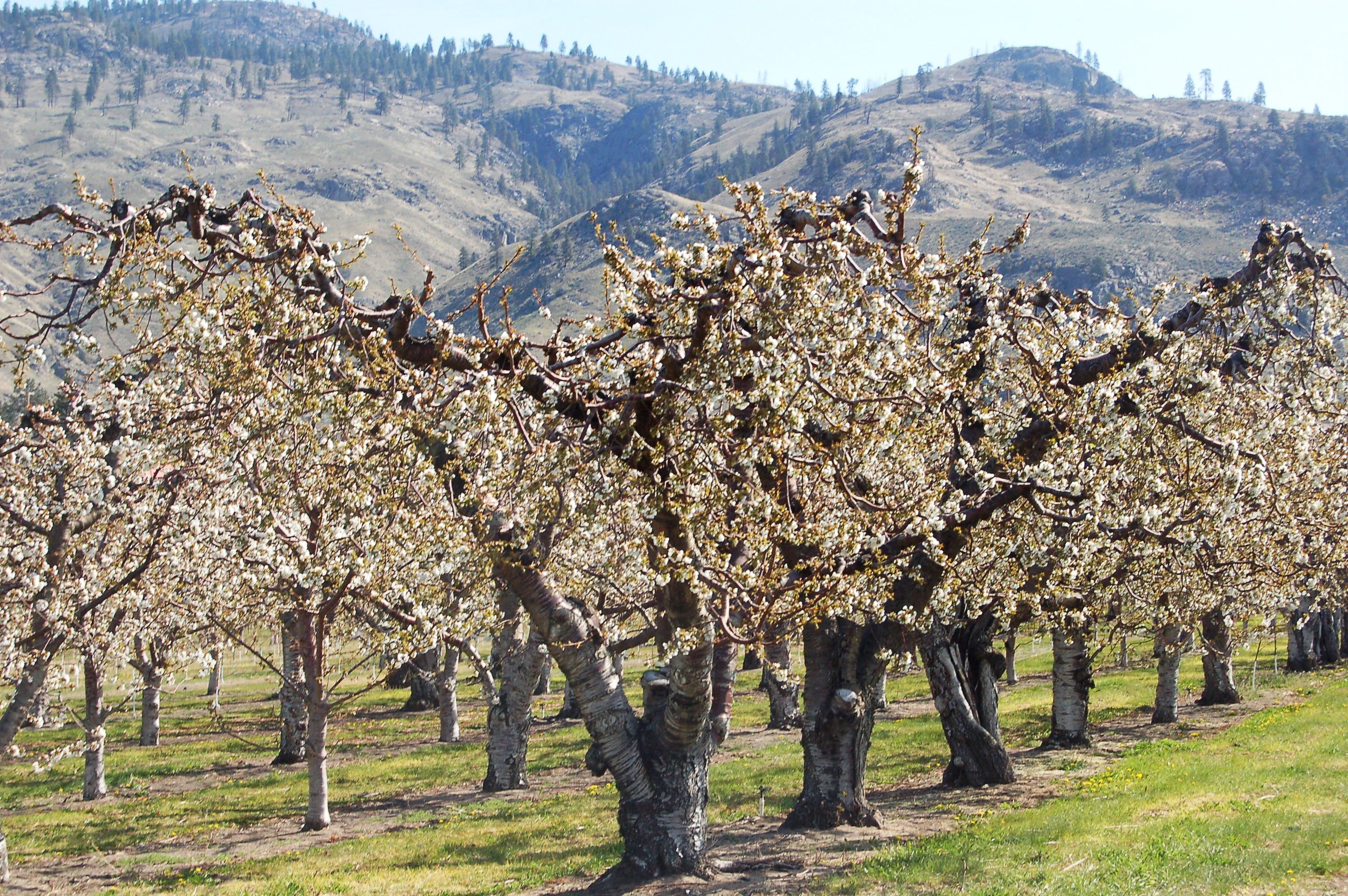 Rows of thick-trunked leafless fruit trees covered in pink blossoms, against a backdrop of Osoyoos foothills.